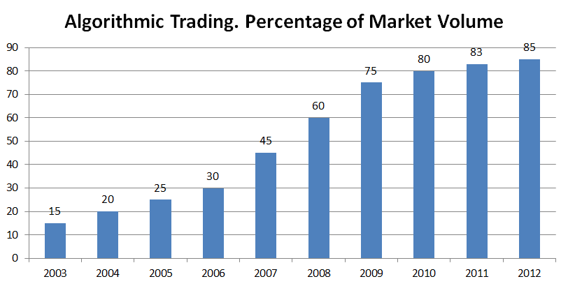 "Algorithmic Trading. Percentage of Market Volume." data from Morton Glantz, Robert Kissell. Multi-Asset Risk Modeling: Techniques for a Global Economy in an Electronic and Algorithmic Trading Era. Academic Press, Dec 3, 2013, p. 258.